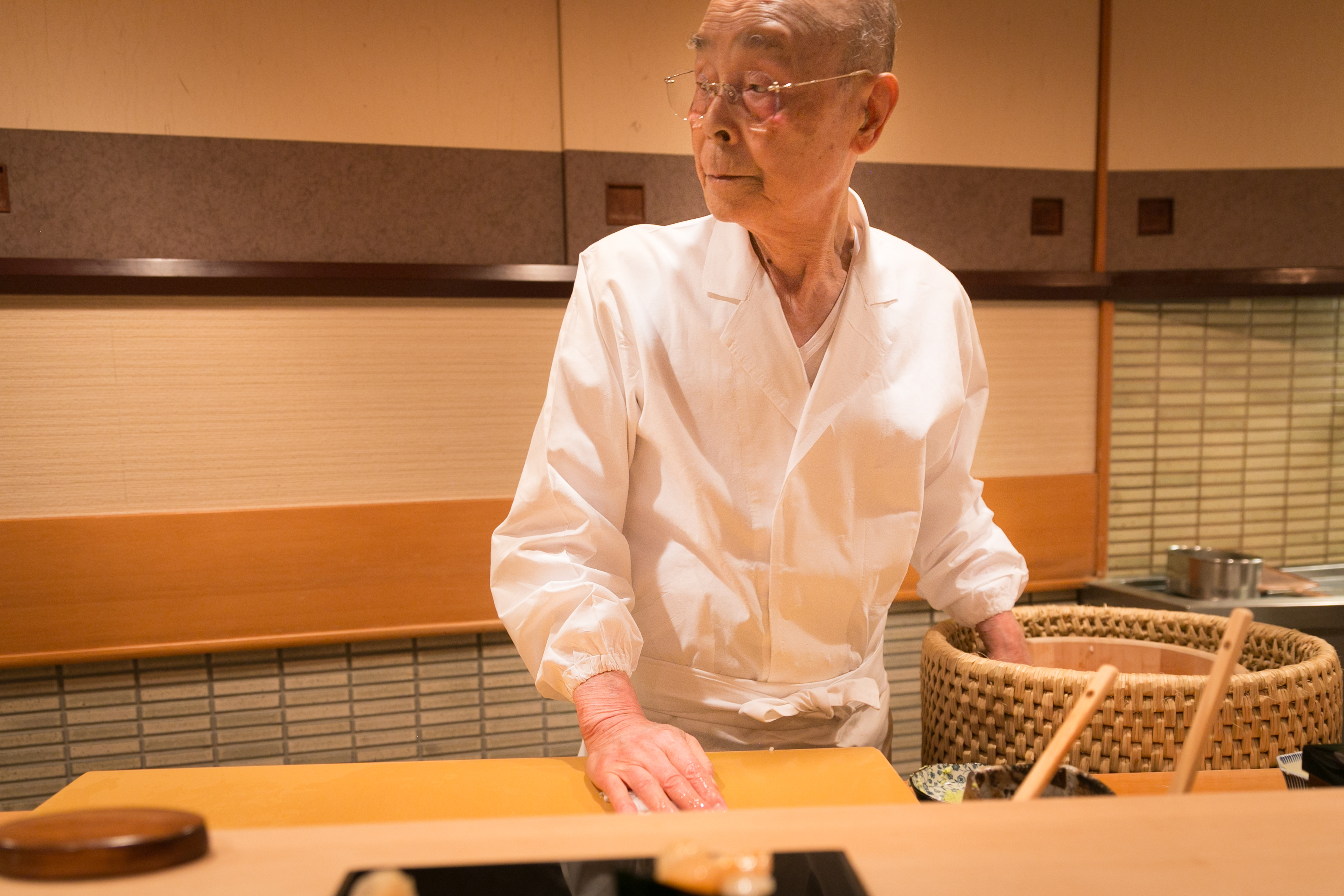 Sukiyabashi Jiro, Tokyo, JP Date Visited: March 31, 2015 City Foodsters Facebook | Twitter | Instagram